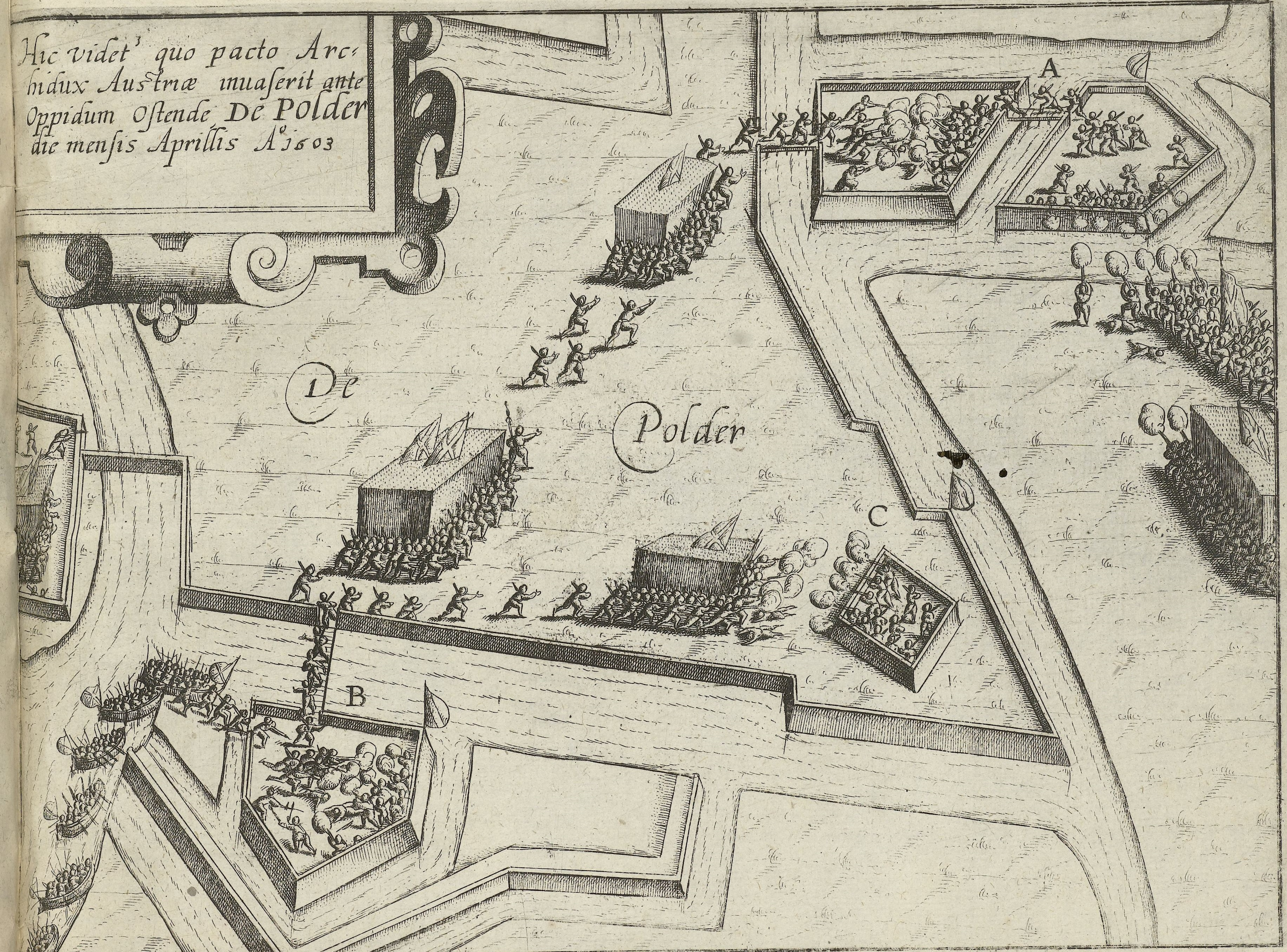 Siege of Ostend, the conquest of the fortresses in the polder by the Spanish army, 1603.